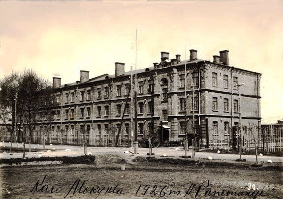 Building of the Military School in 1926, Panemunė , Kaunas Lithuania